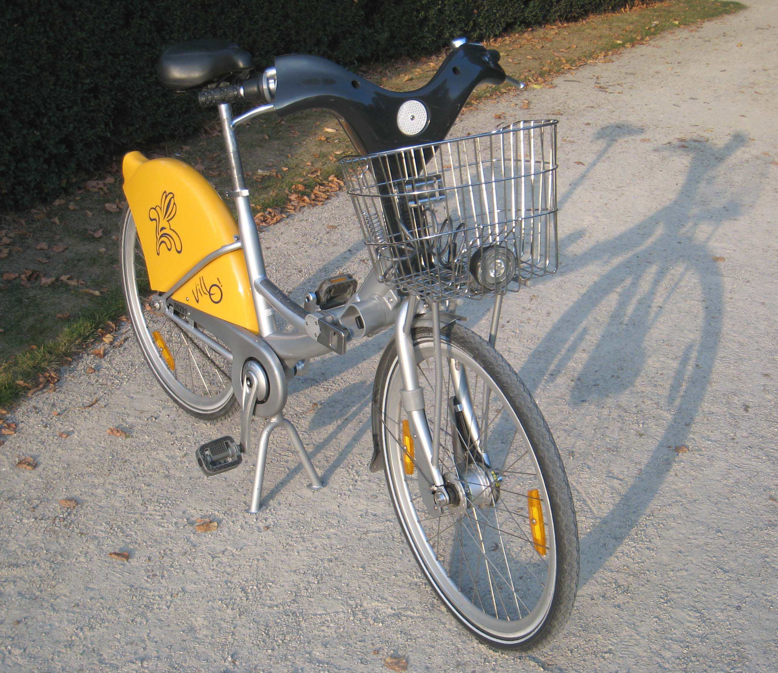 Villo! Bicycle in Cinquantenaire Park